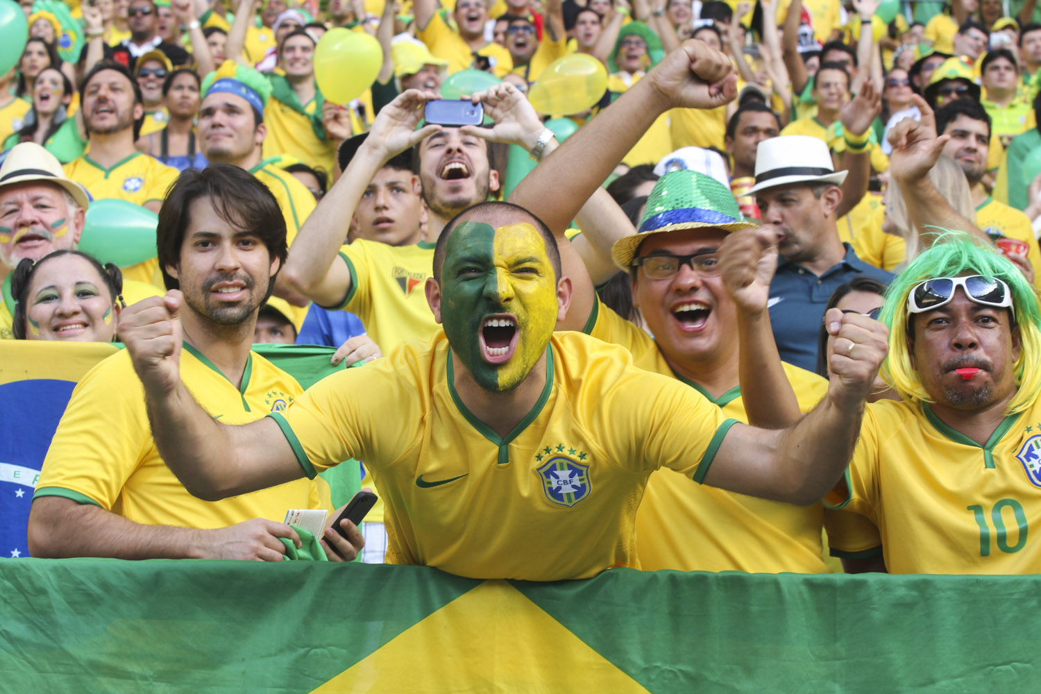 Brazil and Colombia match at the FIFA World Cup 2014-07-04